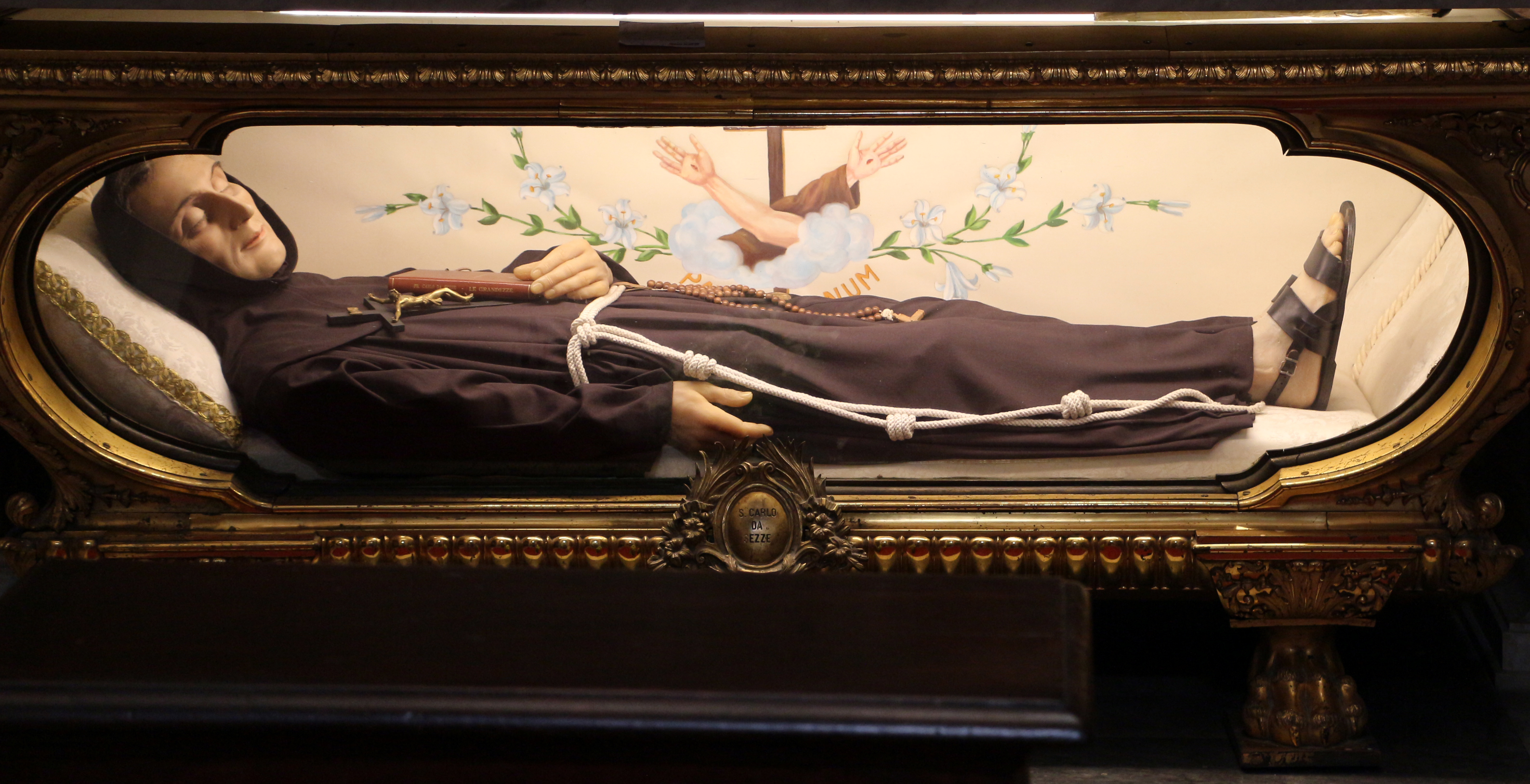 San Francesco a Ripa (Rome) - Interior